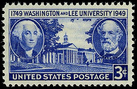 Washington and Lee University in Lexington, Virginia was commemorated on its 200th anniversary on November 23, 1948, with a 3-cent postage. The central design is a view of the university, flanked by portraits of generals George Washington and Robert E. Lee.